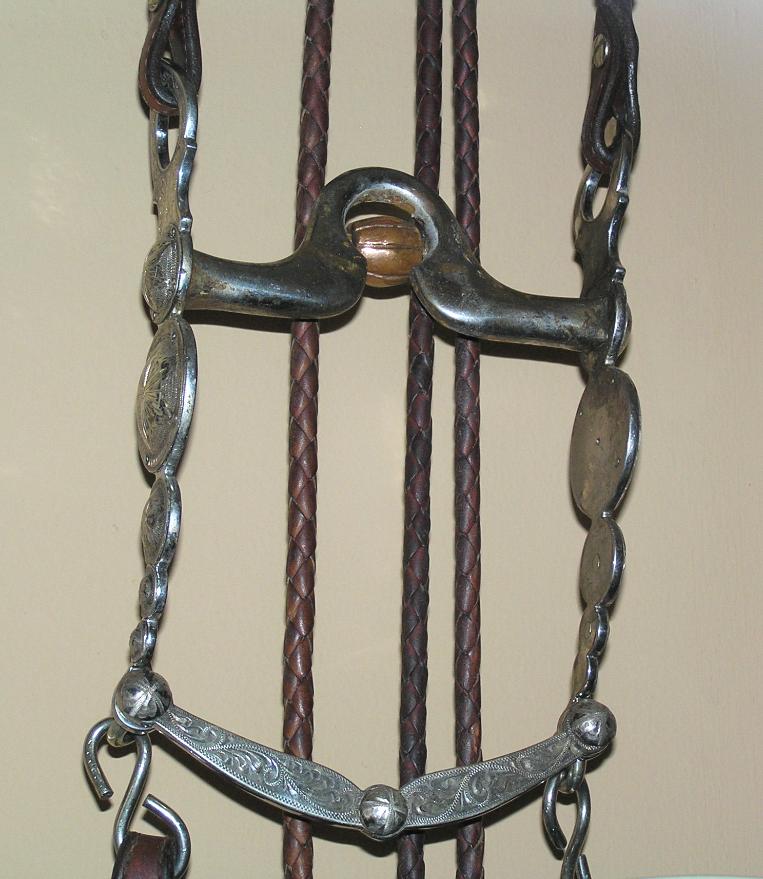 A silver shanked curb bit with cricket roller. Suitable for show. Image taken with staff permission at the Murray Hotel, Livingston, MT